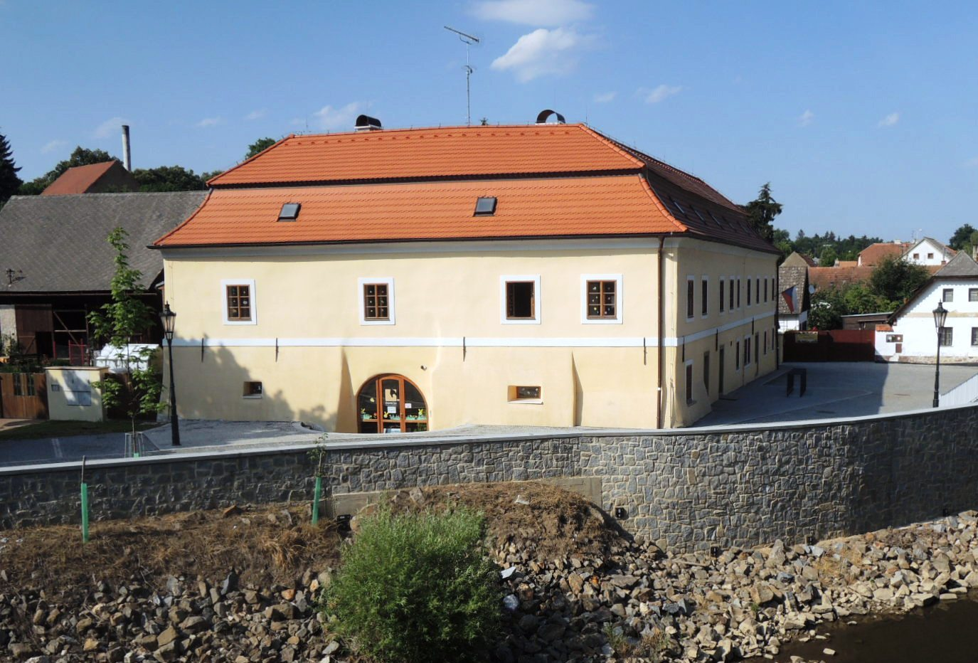 Vlašim, Old Town Hall